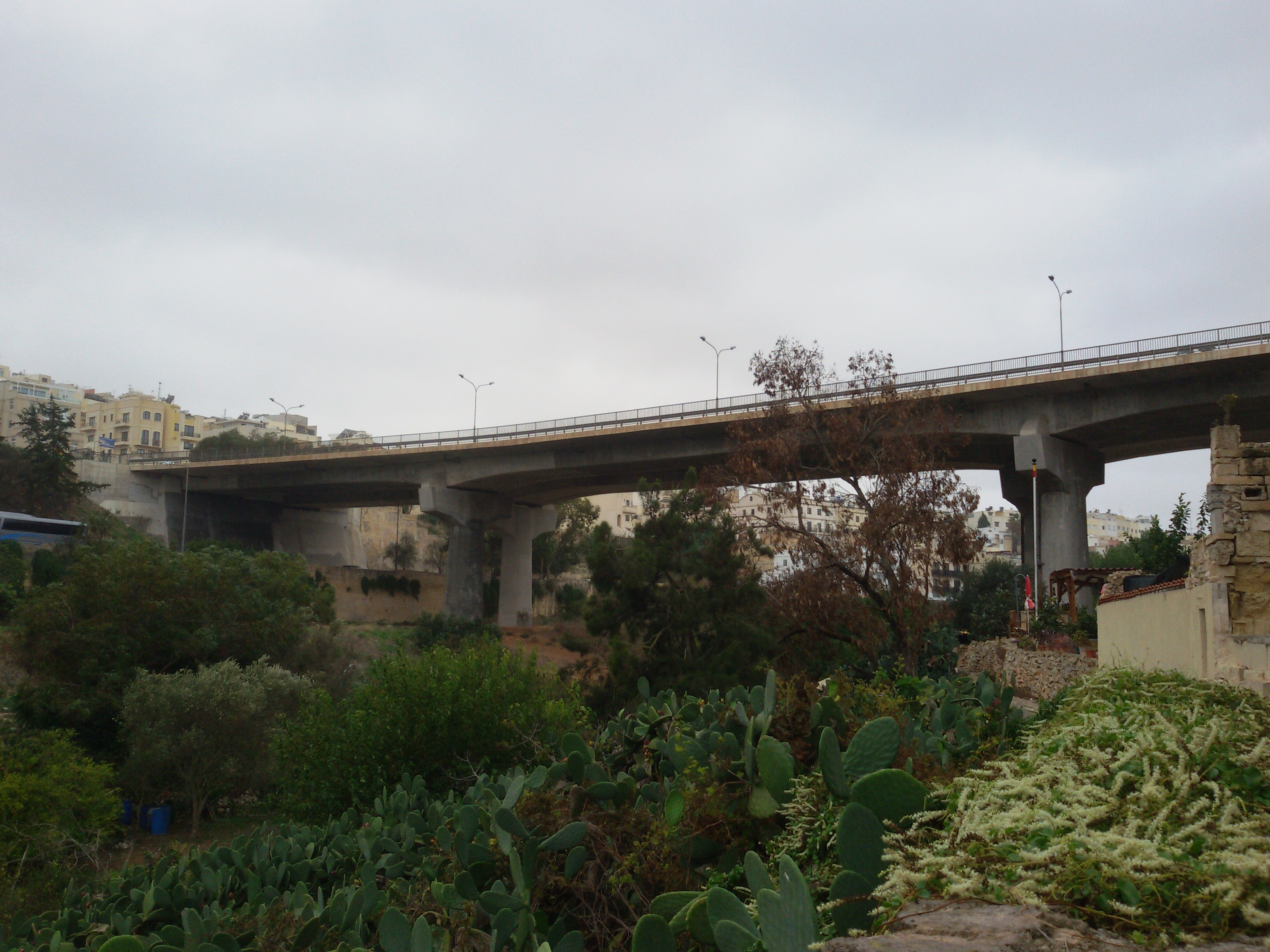 Manuel Dimech Bridge, 2016